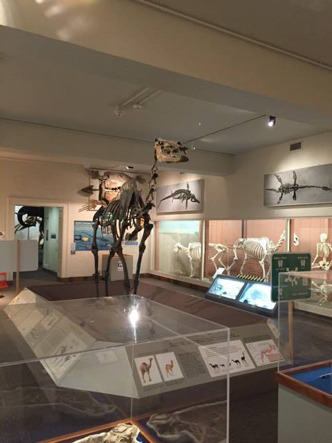 Display